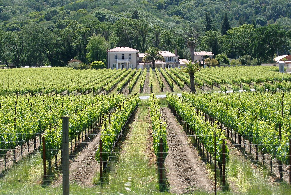 A vineyard and mansion seen in Mendocino County, next to U.S. Highway 101. In the U.S. state of California, it is very common for wealthy Californians to plant vineyards and/or purchase existing ones as symbols of their success.